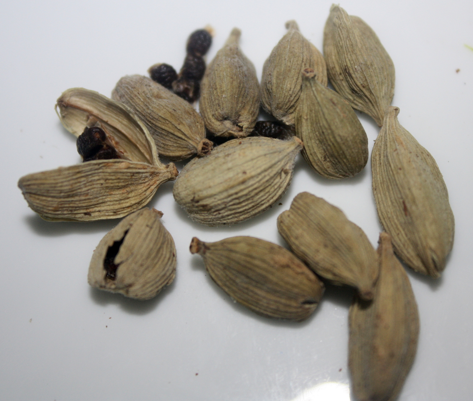 Cardamom ( ছোট এলাচ) , Kolkata, West Bengal, India